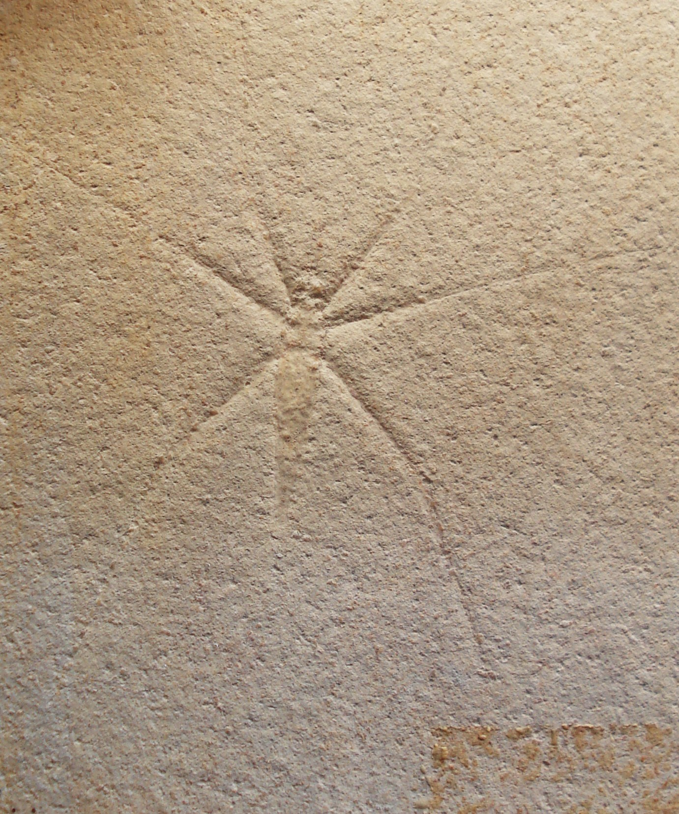 fossil of Chresmoda obscura (jr synonym Propygolampis bronni